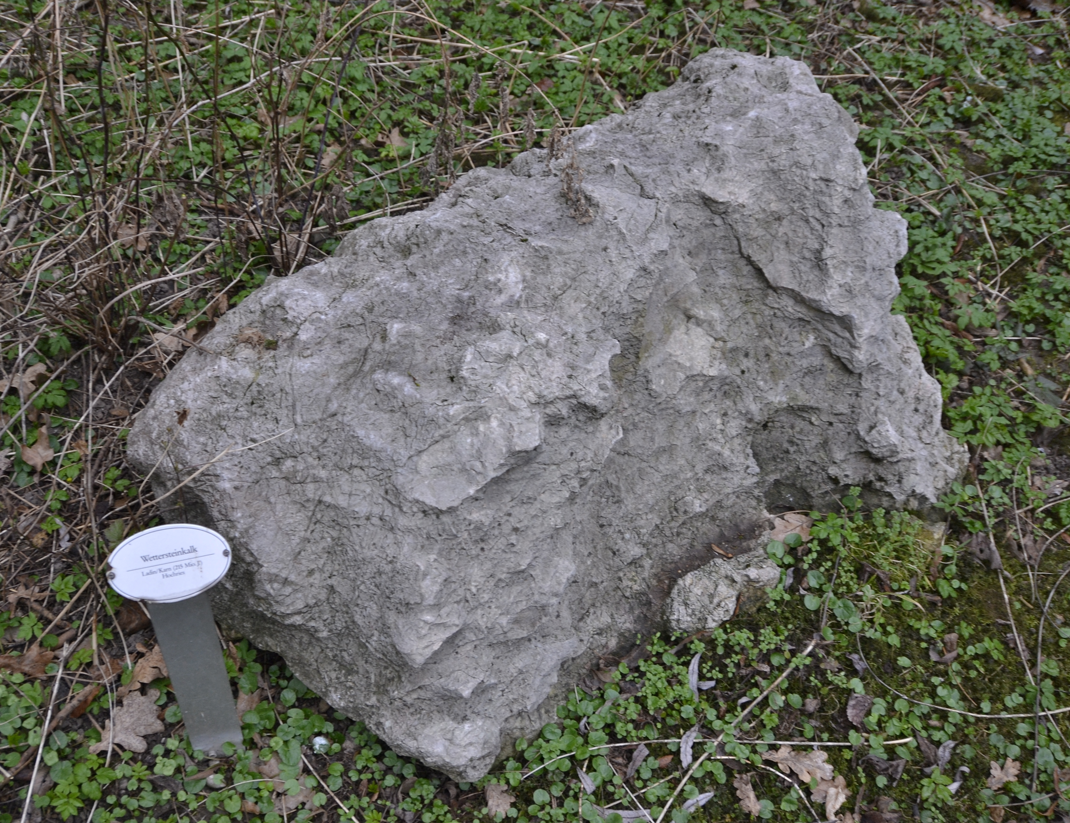 The geological public collection at the Alpines Museum in Munich.